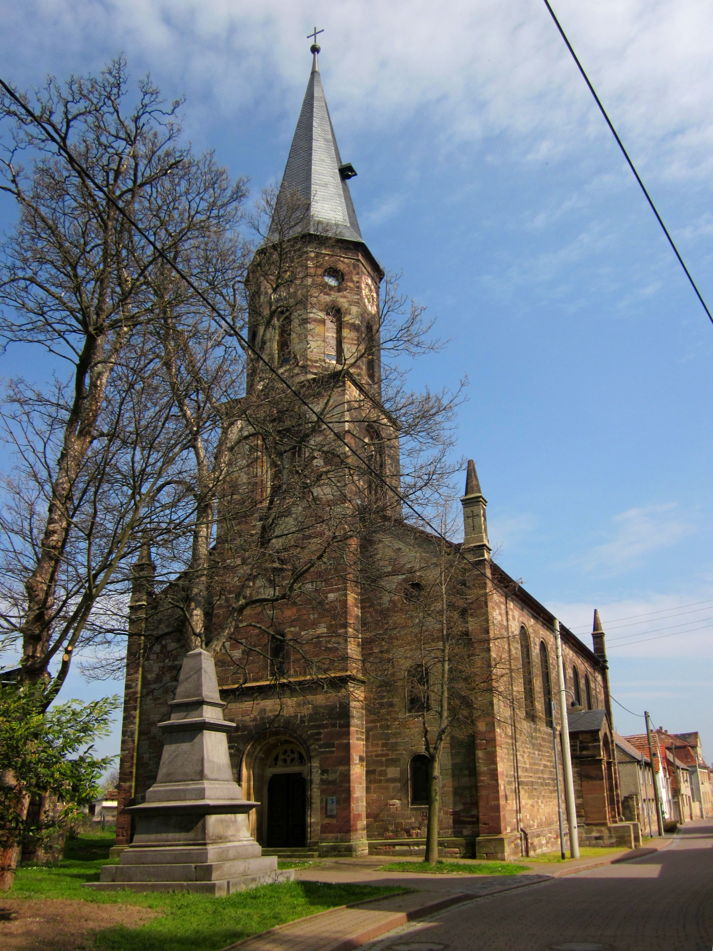 St. George's Church in Gatterstädt (Querfurt, district: Saalekreis, Saxony-Anhalt)